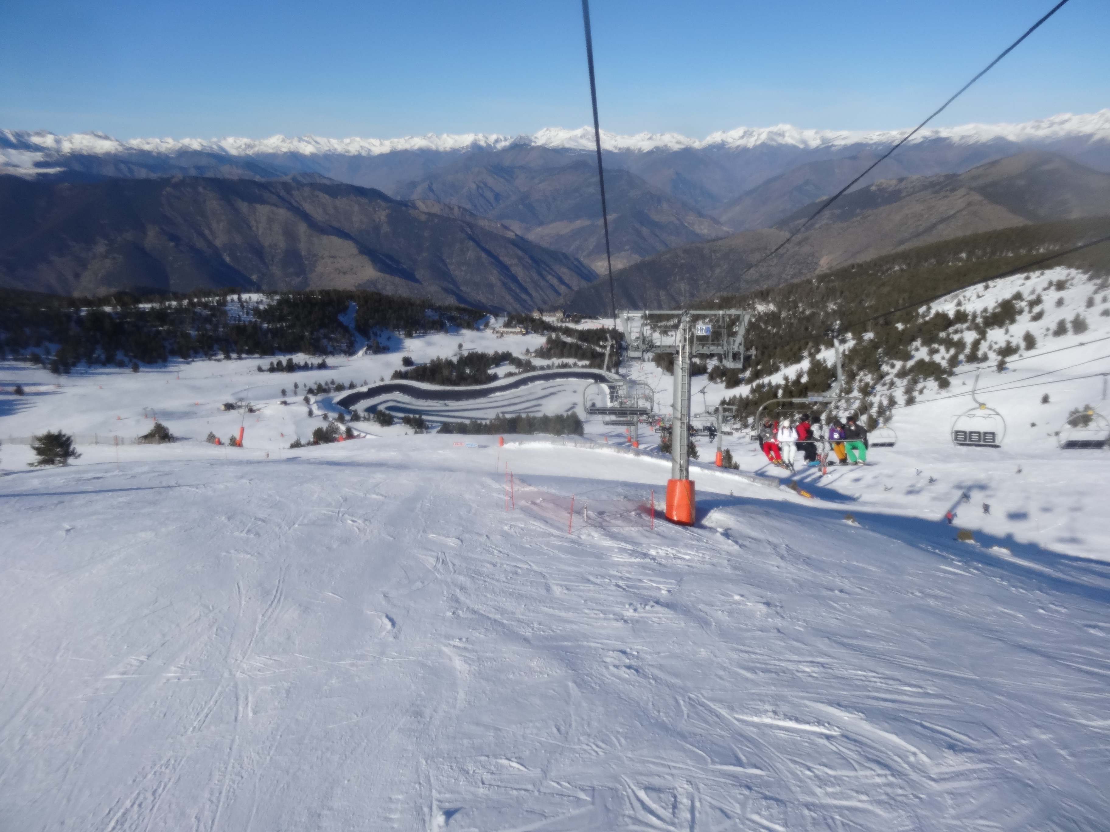 Port Ainé ski resort, in Catalonia.